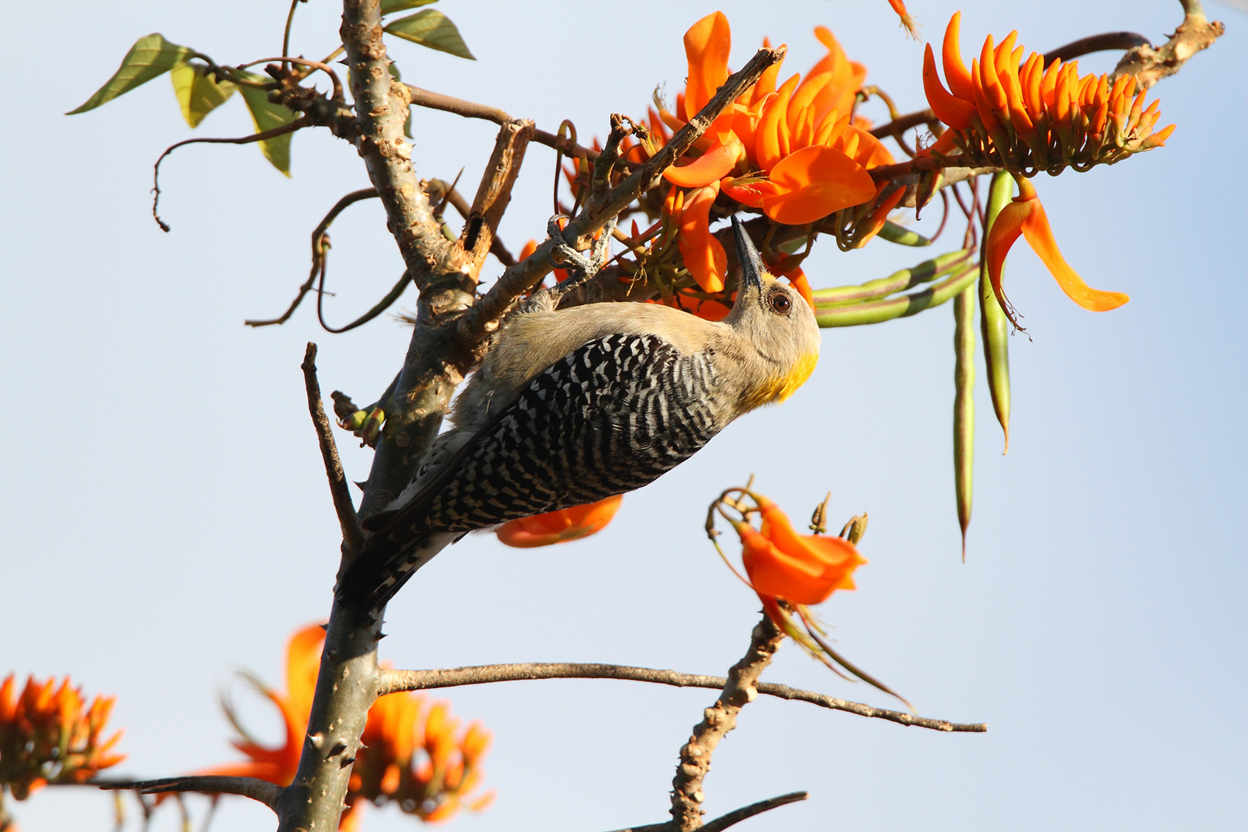 Female Hoffman's woodpecker (Melanerpes hoffmannii), Alajuela, Costa Rica